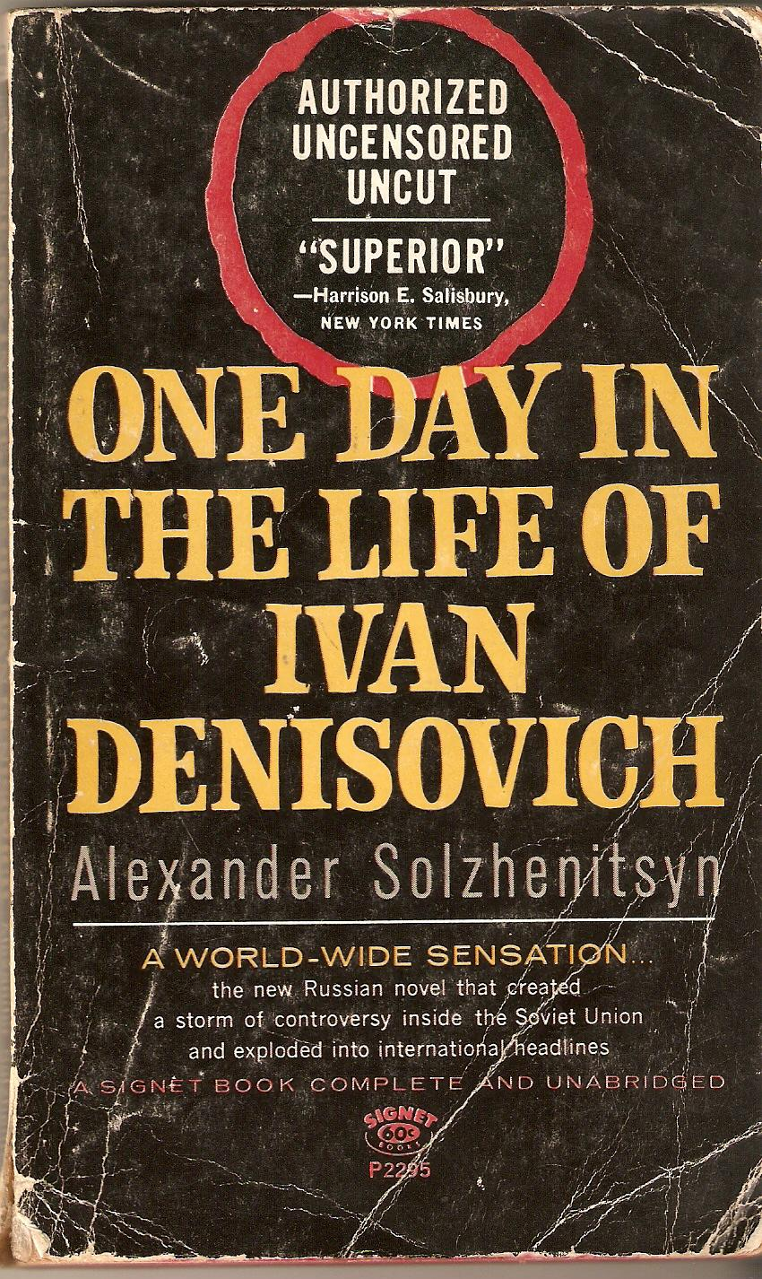 U.S. paperback cover of One Day in the Life of Ivan Denisovich by Aleksandr Solzhenitsyn purpose:Illustrate infobox in article Simple wikipedia